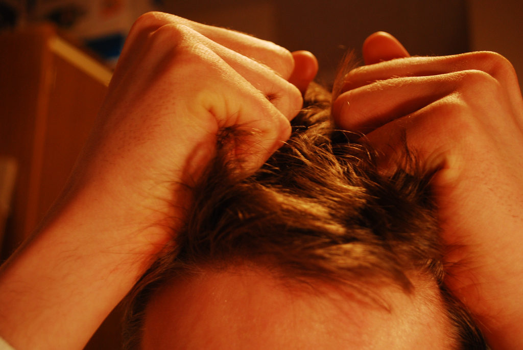 A person shows stress by pulling at their hair.